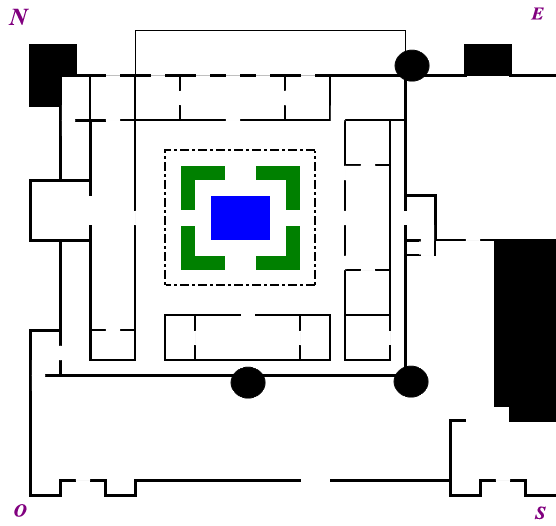 Schematic map of Royal Palace of Guadalajara, Spain.